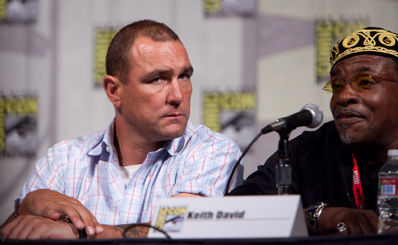 The Cape Panel - Vinnie Jones (left) and Keith David